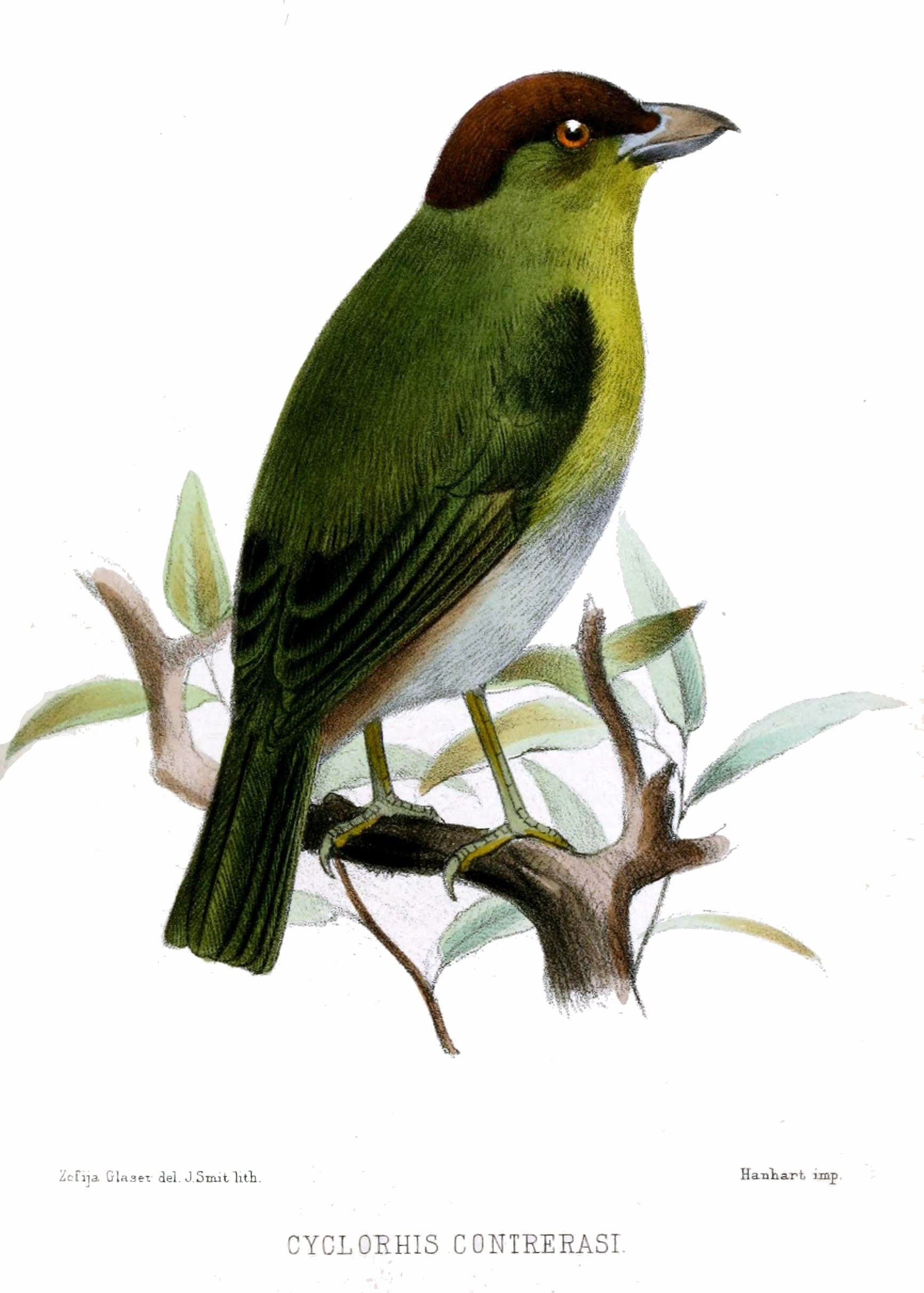 Cyclorhis contrerasi